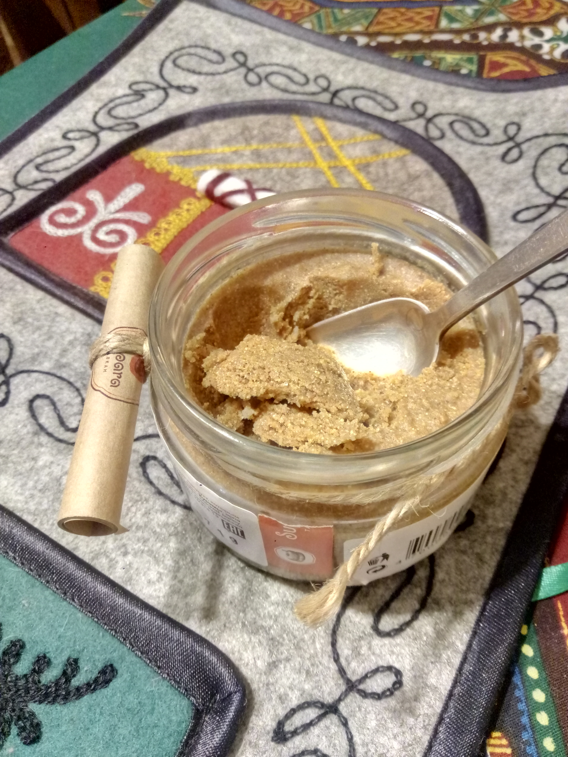 Talkan is a sweet dish made from fried flour in Kyrgyz, Mongol, Uzbek and other cuisines, often with honey and butter